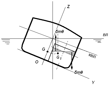 Free Surface Effect illustration